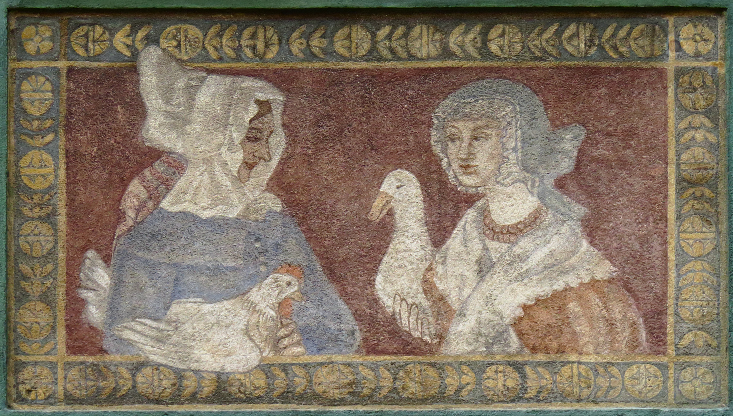 Mural at 1 Długa street in Gdańsk. Authors of frescos: Boguchwała Bramińska and Jan Rzyszczak.